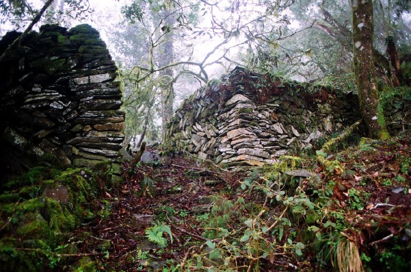 Ruins along the Batongguan Historical Trail. 中文（台灣）: 八通關古道沿途上的遺跡。